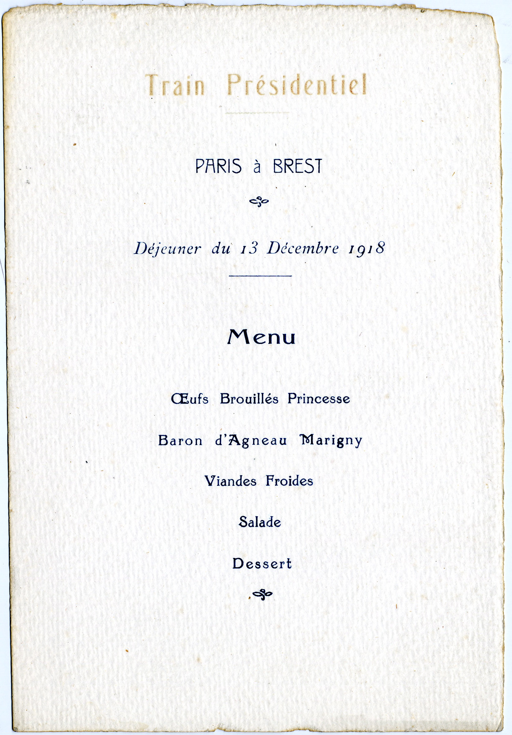 Menu of a lunch served on board the French presidential train on December 13th, 1918 on a journey from Paris to Brest